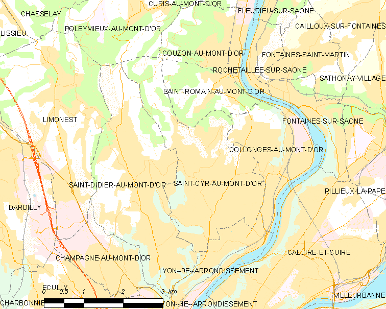 Map of French municipality